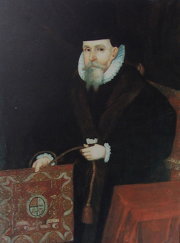 Adam Loftus (c1533-1605)